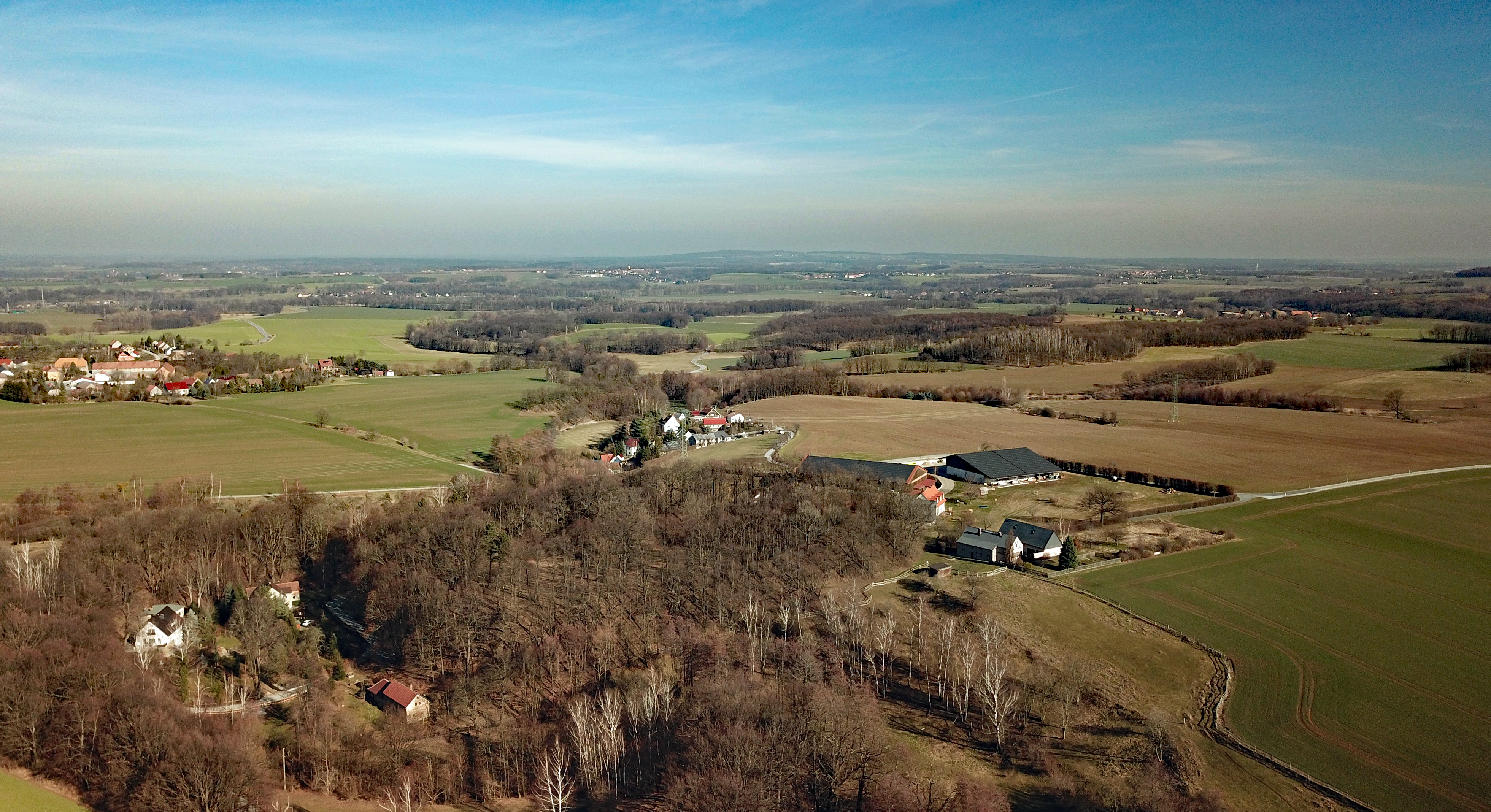 Niethen (Hochkirch, Saxony, Germany) Hornjoserbsce: Powětrowy wobraz Něćina z hrodźišćom Dieses Foto wurde mit einem Quadcopter innerhalb der RMZ des Flugplatzes EDAB aufgenommen. Der Flugleiter wurde am Aufnahmetag telephonisch über Ort und Zeit informiert und hat zugestimmt. Der Flug erfolgte auf Grundlage der Allgemeinverfügung der Landesdirektion Sachsen zur Erteilung der Betriebserlaubnis für unbemannte Luftfahrtsysteme und Flugmodelle gemäß § 21a LuftVO und Zulassung von Ausnahmen von Betriebsverboten gemäß § 21b LuftVO für den Freistaat Sachsen.